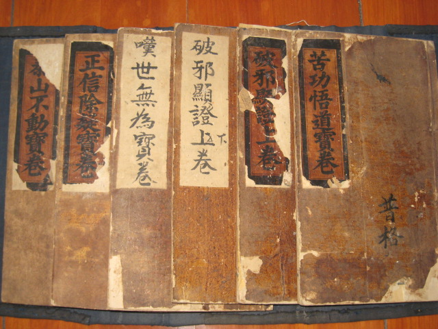 中國羅教經書「五部六冊」